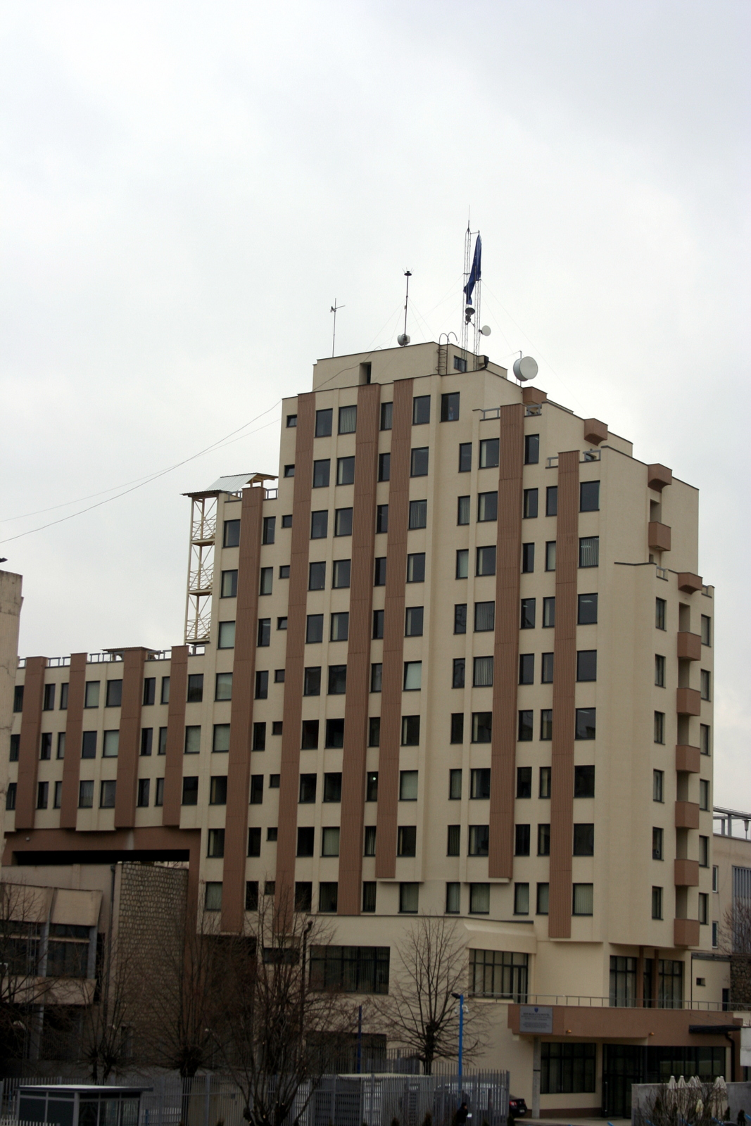 New MFA Building Kosovo